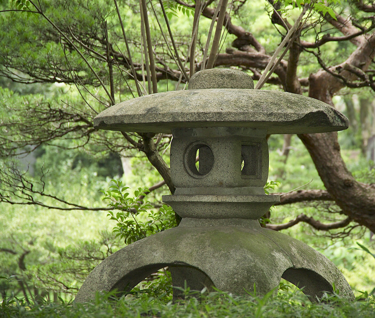 Stone lantern at Shukkeien, a garden near Hiroshima Castle, Hiroshima, Japan. I took this photo and contribute my rights in the file to the public domain; people and organizations retain rights to images in it.